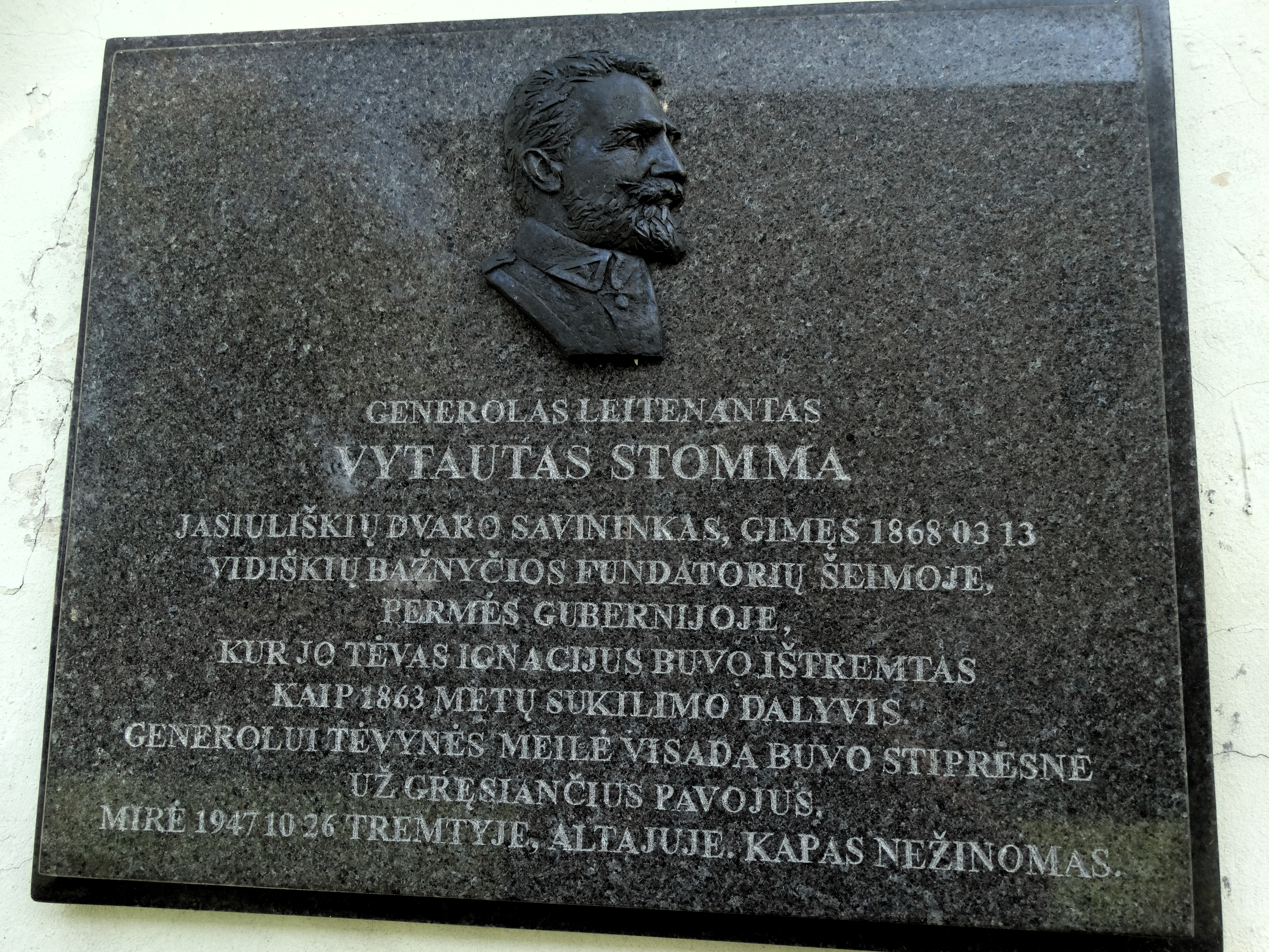 Memorial board to Vytautas Stoma, Vidiškiai, Ukmergė district, Lithuania